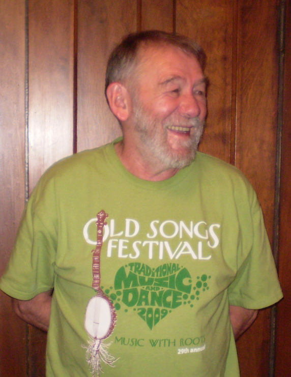 Photograph of folk musician John Roberts, taken on September 5, 2009. Copyleft: This work of art is free; you can redistribute it and/or modify it according to terms of the Free Art License. You will find a specimen of this license on the Copyleft Attitude site as well as on other sites.